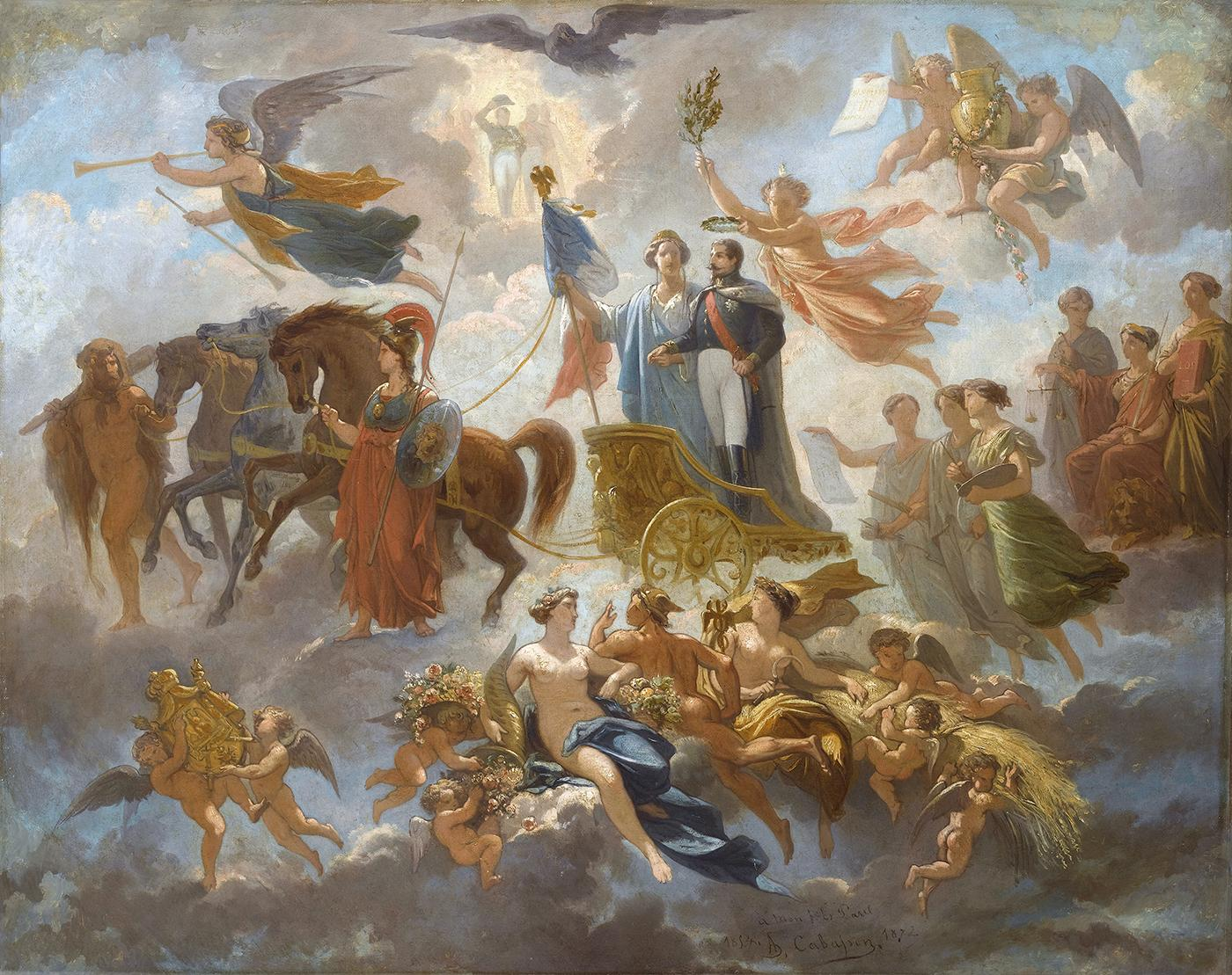 Apotheosis of Napoleon III